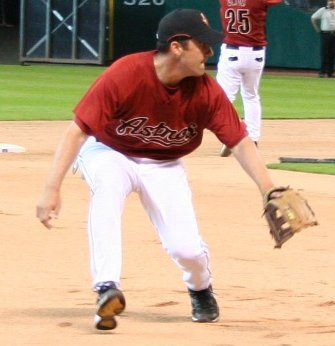 I took this picture on April 2, 2007 at Minute Maid Park. 18:09, 3 April 2007 . . Blwarren713 . . 335×346 (32 KB)